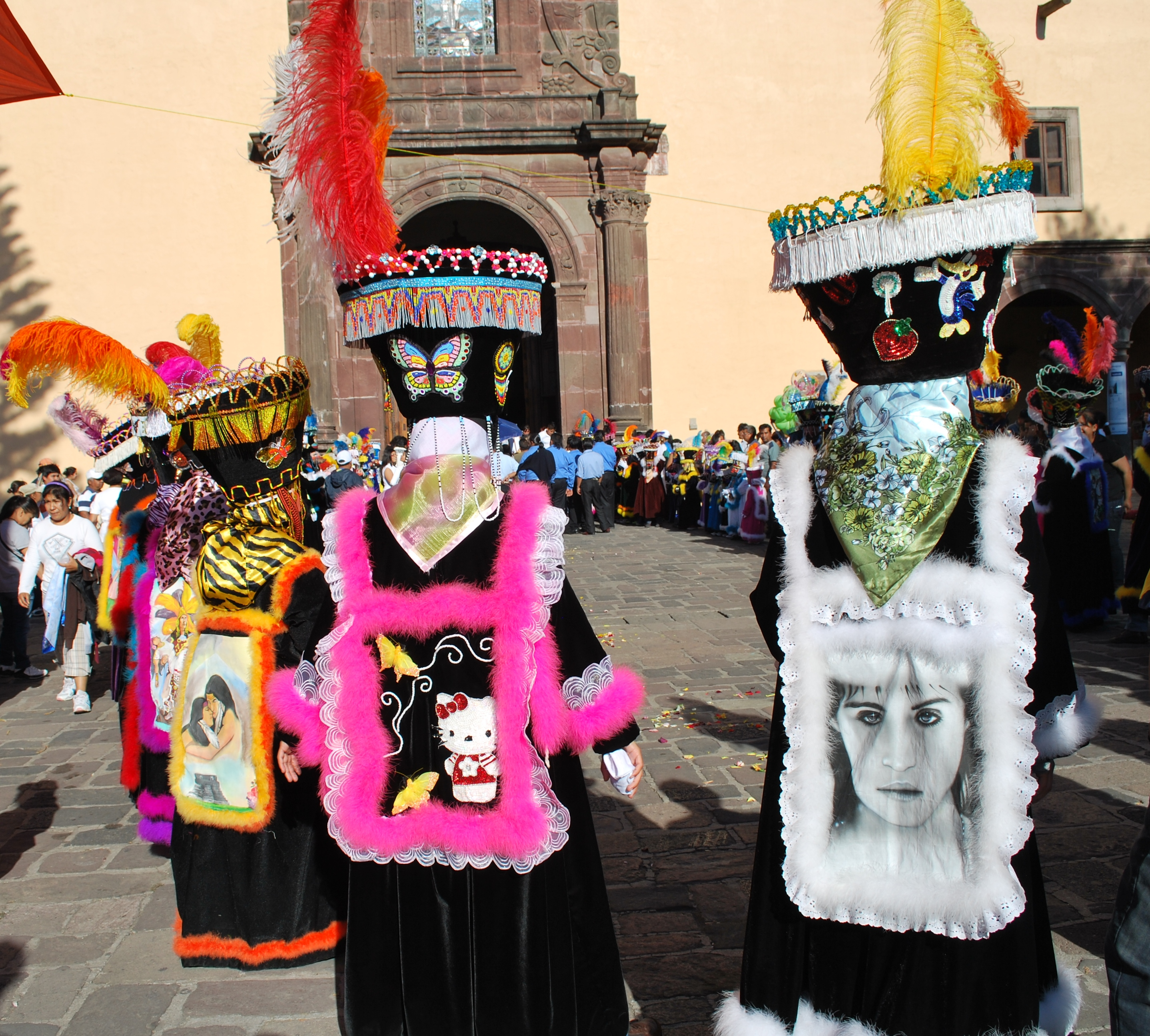 Chinelos in the atrium of San Bernadino after the procession of the Niñopa in Xochimilco